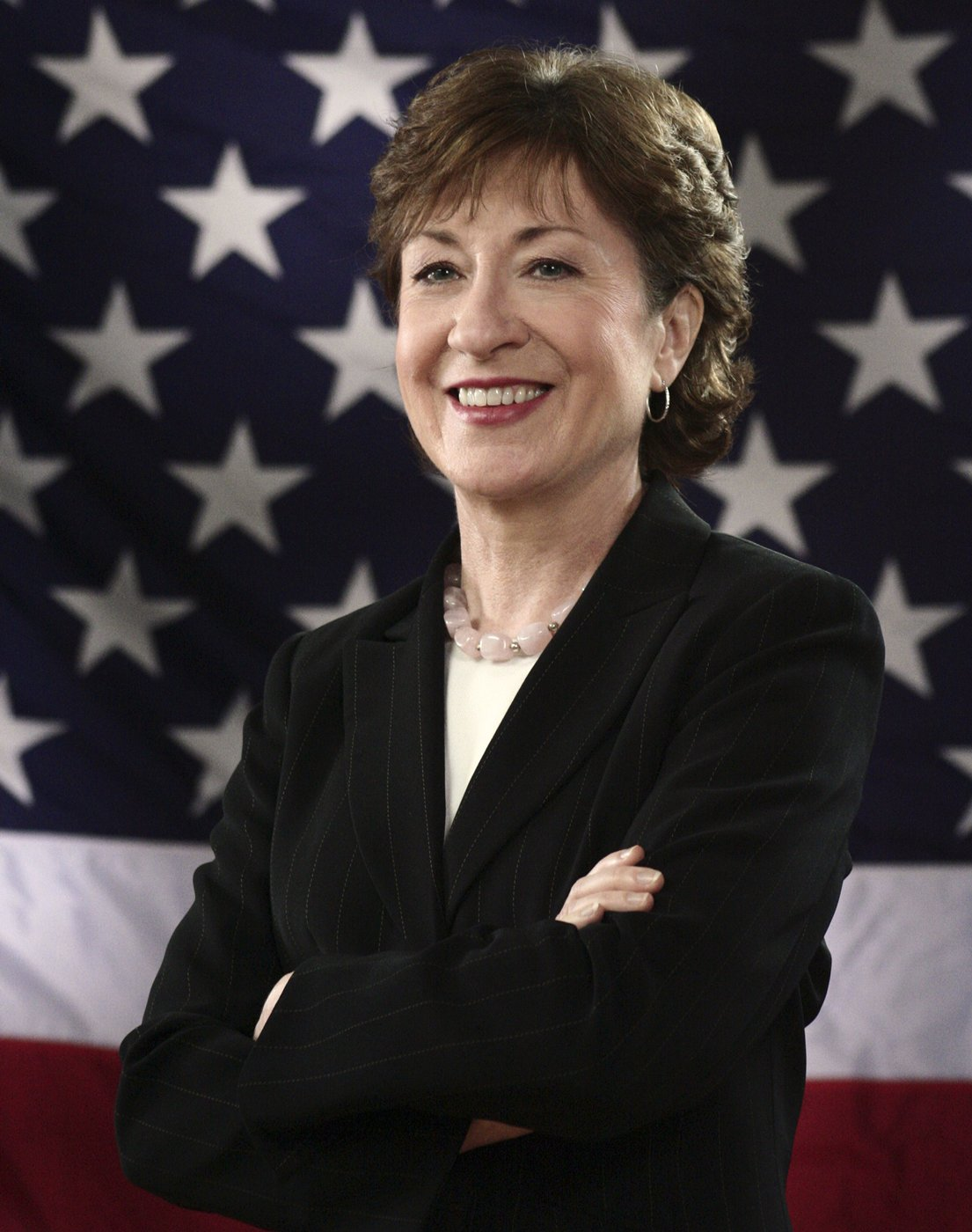 Susan Collins (R-ME), member of the United States Senate.